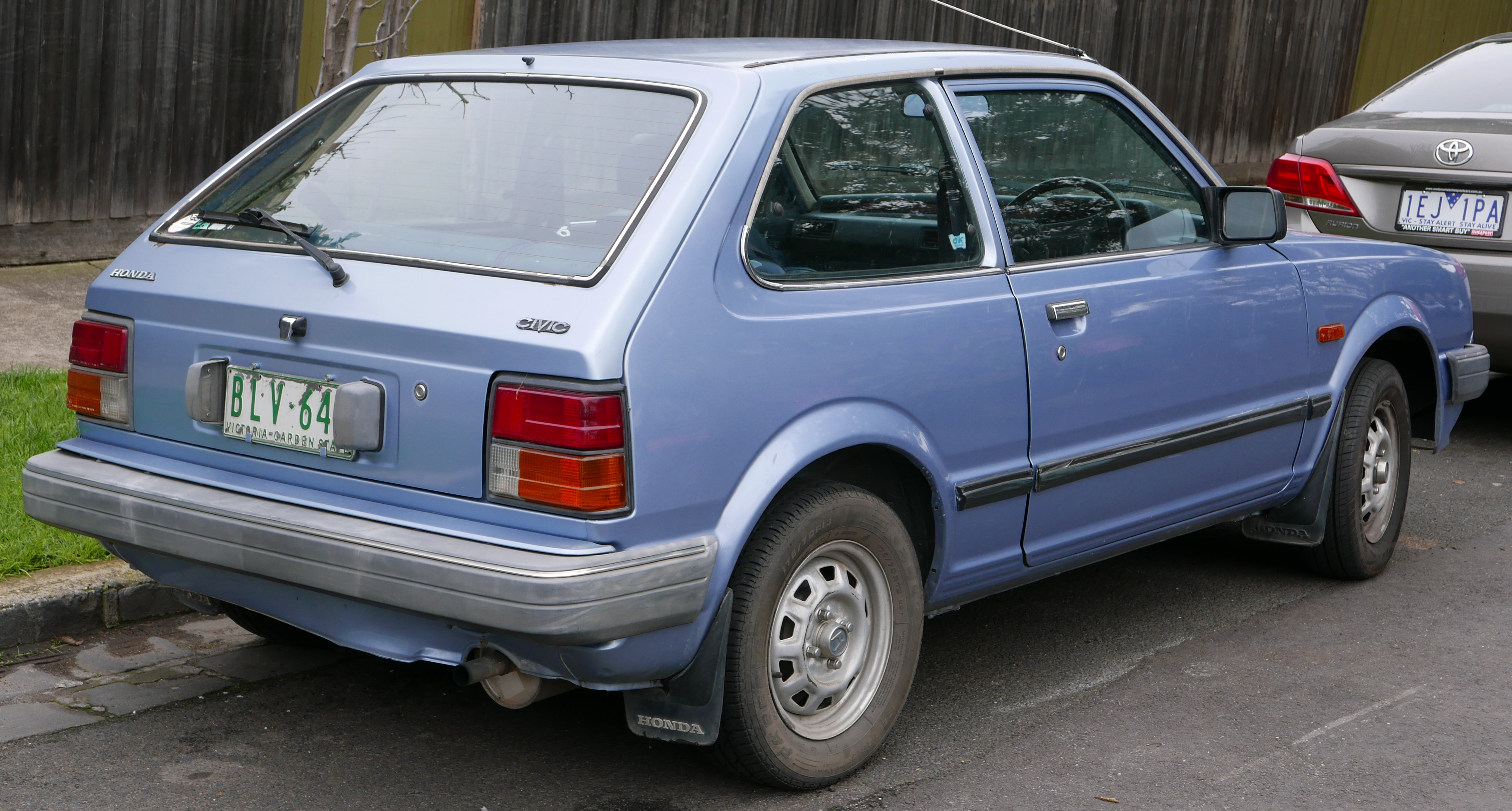 1982 Honda Civic 3-door hatchback. Photographed in Brunswick East, Victoria, Australia. Vehicle registration enquiry results Jurisdiction Victoria Registration BLV645 Chassis code Not available Engine code EN12010227 Compliance date Not available Year of manufacture 1982